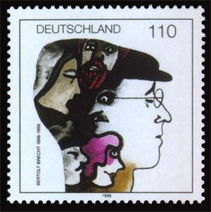 German Writer Bertolt Brecht